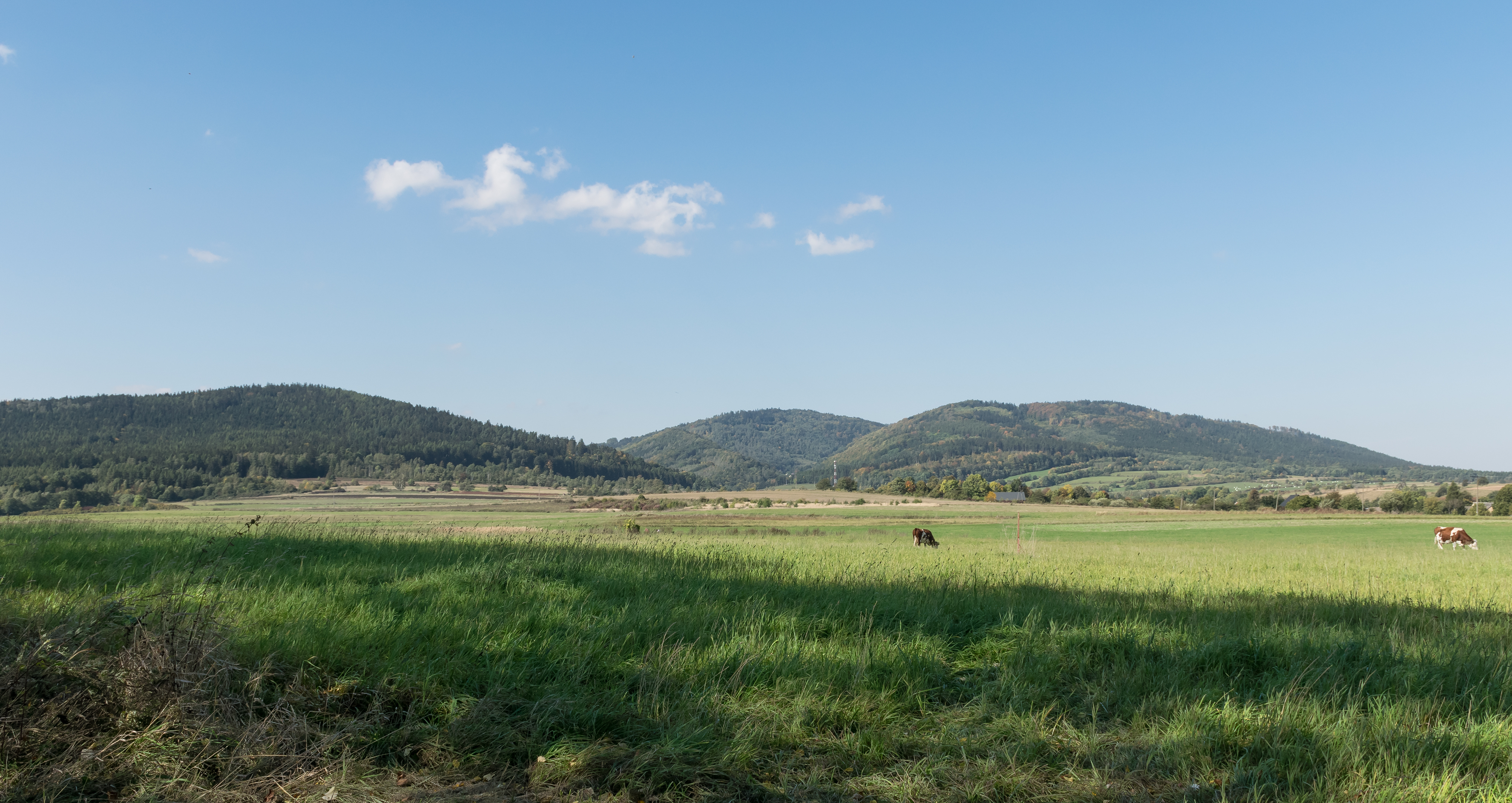 Kawczak, Trzcińska Góra i Żeleźniak, Bystrzyckie Mountains, Sudetes